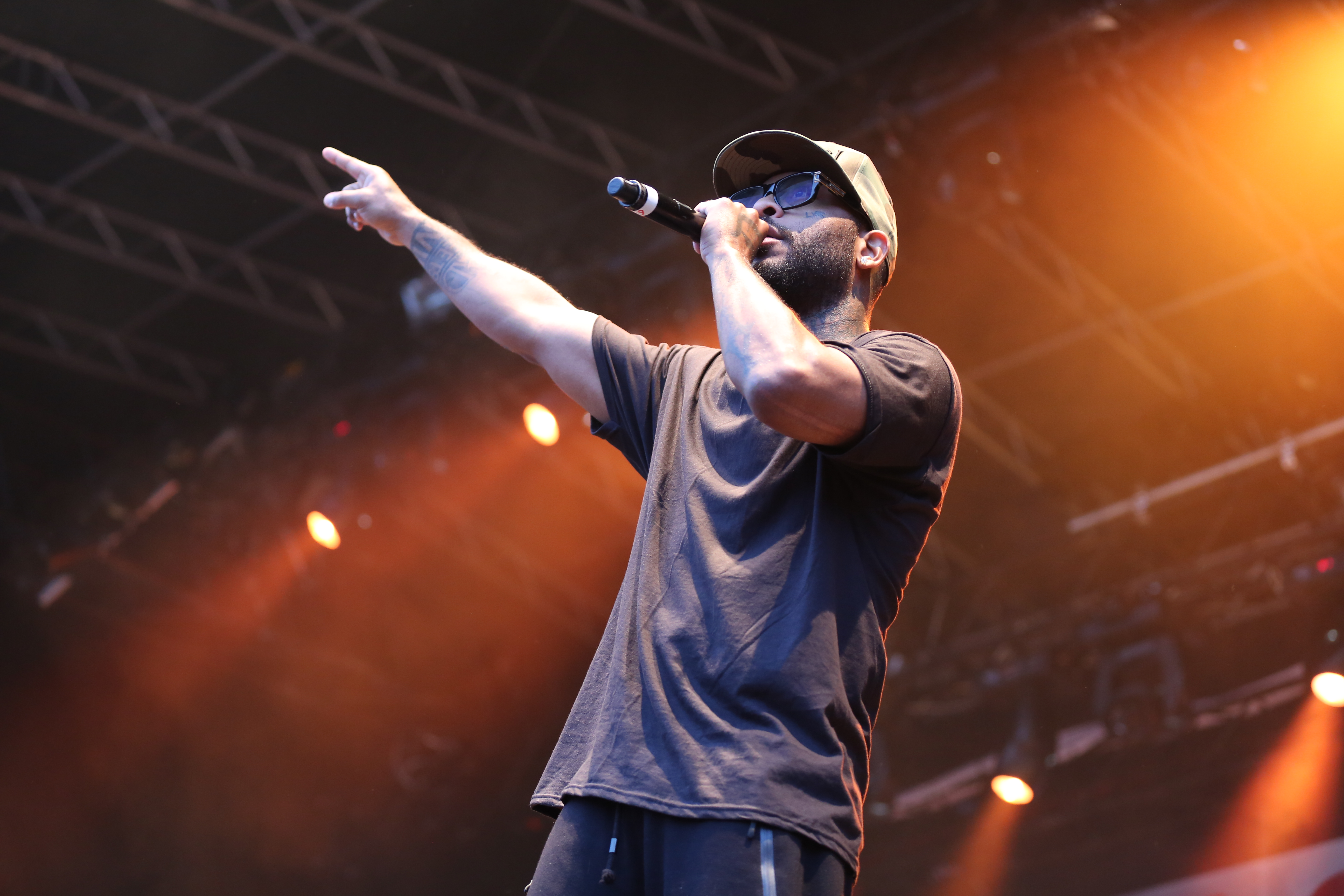 Royce 5'9" beim Out4Fame-Festival 2016